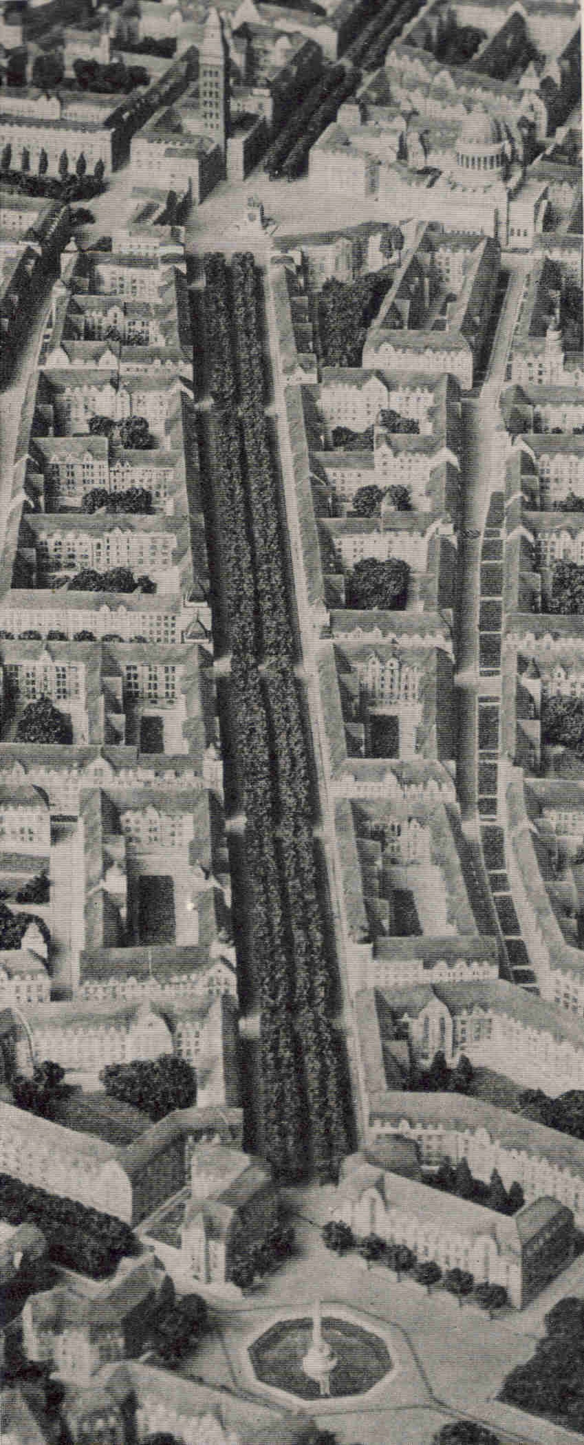 Photograph of a model of the Munksnäs-Haga plan